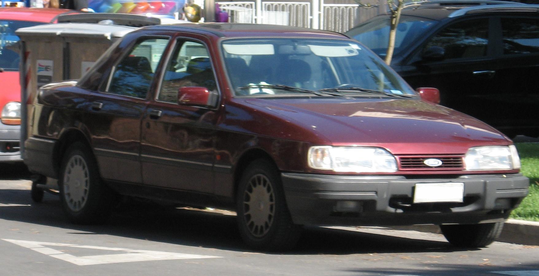 Subject:Ford Scorpio Author:Luc106 Date:12th August 2007 Place/Country: Milano Marittima (RA), Italy I release all rights in the public domain.